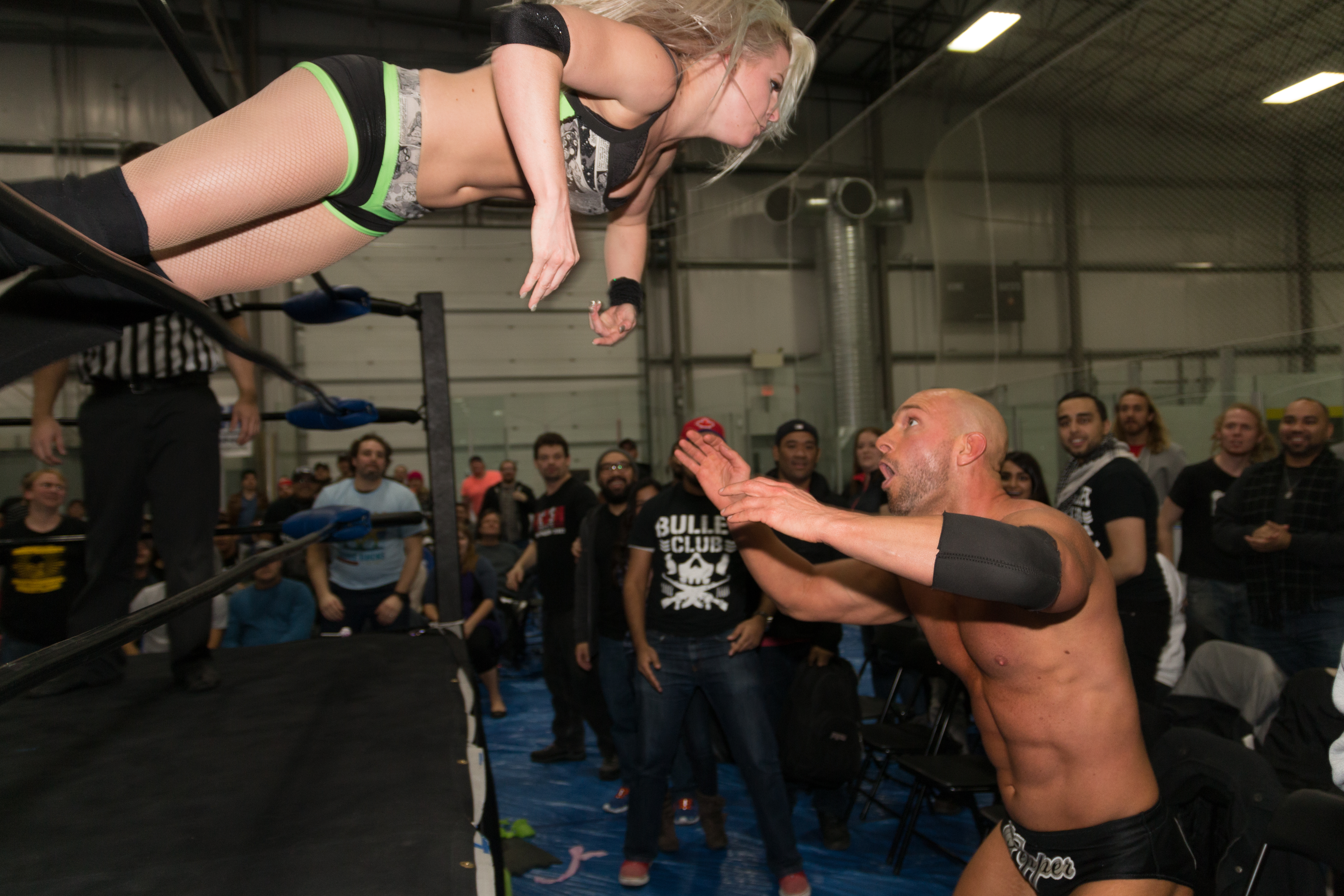 Independent wrestler Candice LeRae making a Suicide Dive onto Pepper Parks at Smash Wrestling's Challenge Accepted show